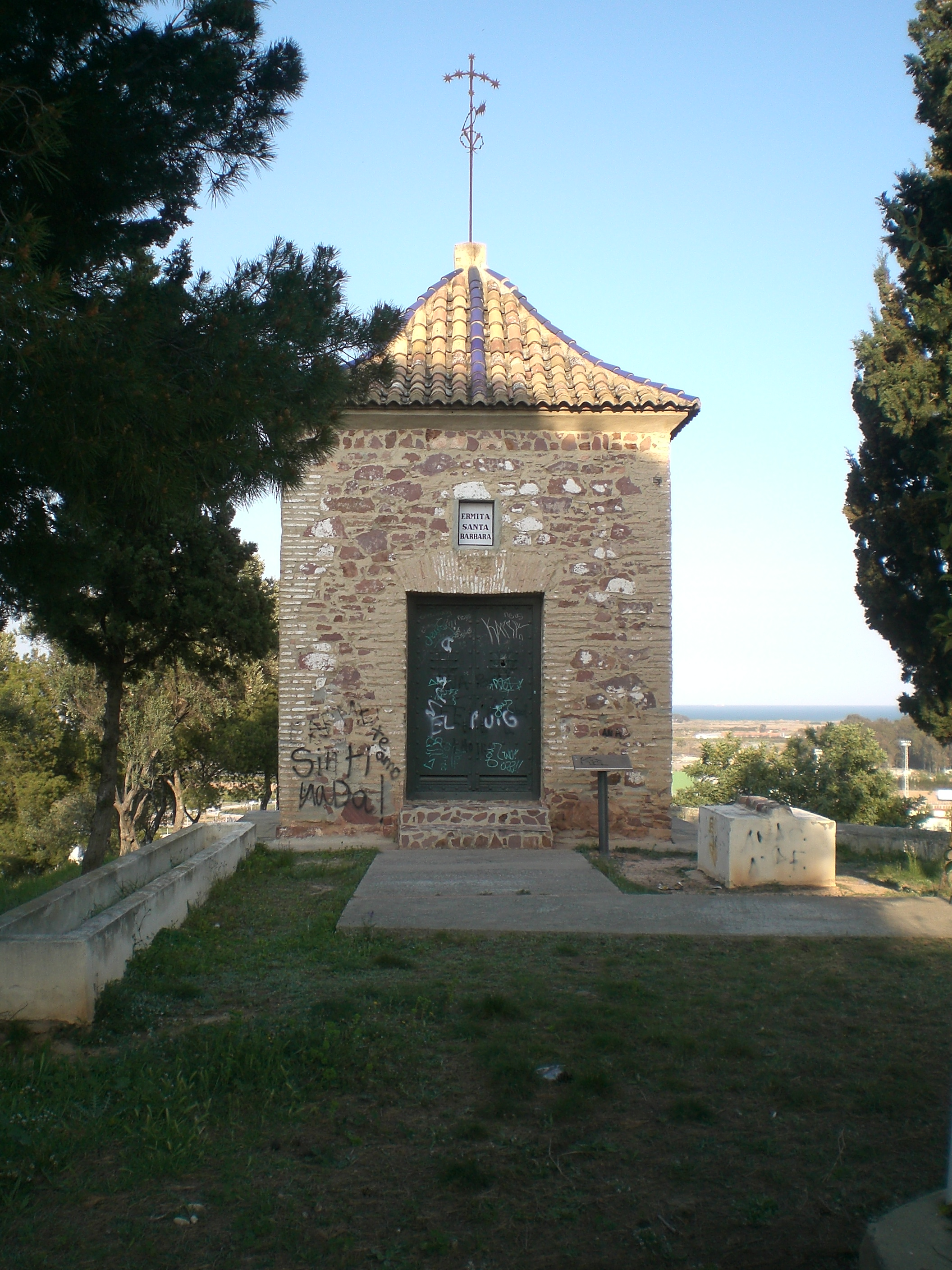 The Saint Barbara Hermitage in El Puig, Valencia